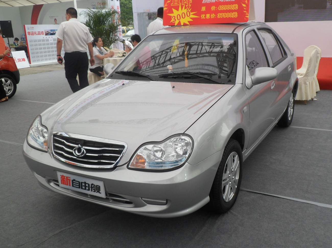 Gleagle CK photographed at the 2012 Chongqing Auto Show, Chongqing, China.